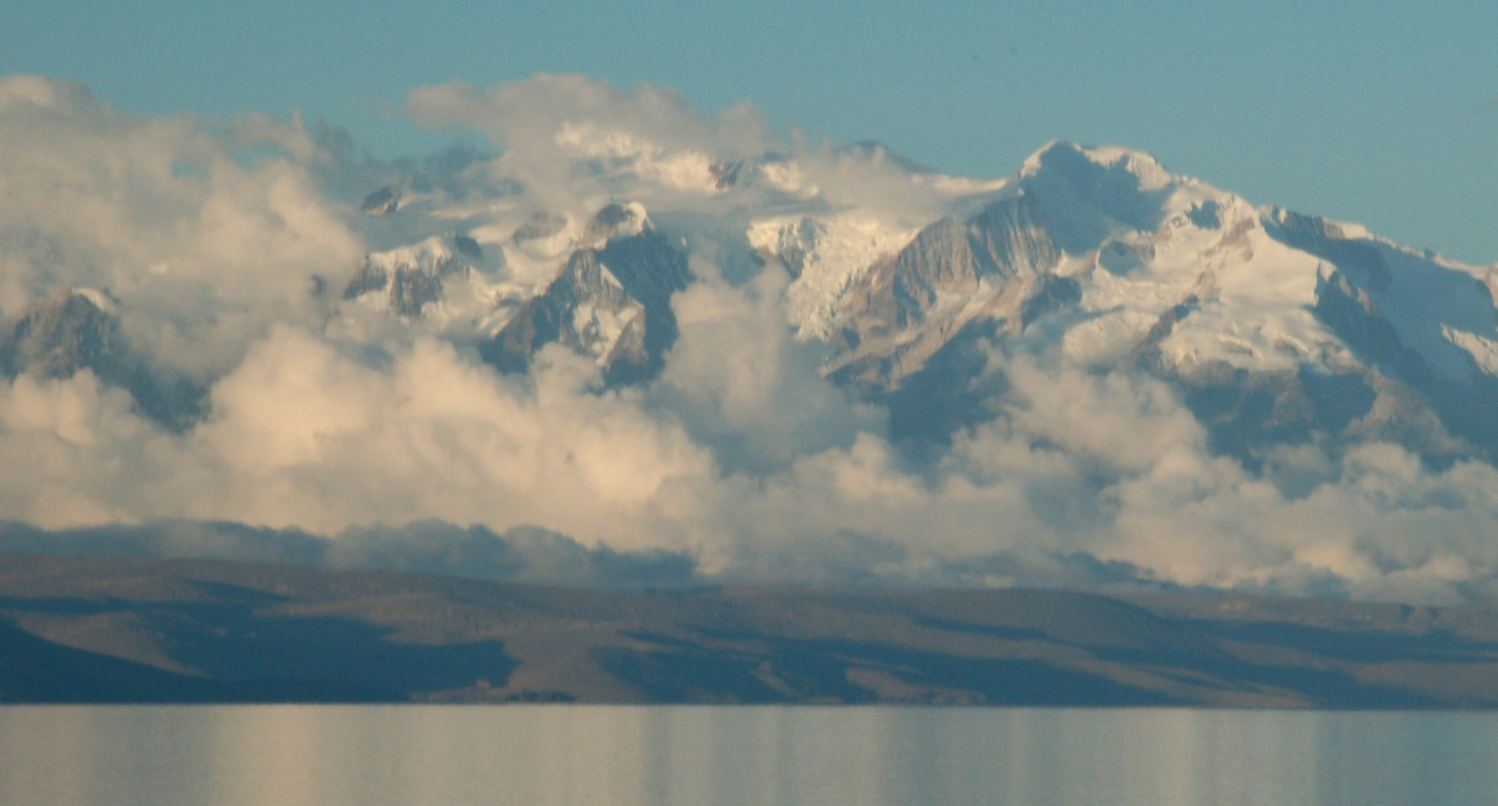 Shot from the Island of the Sun on the Bolivian side of Lake Titicaca.